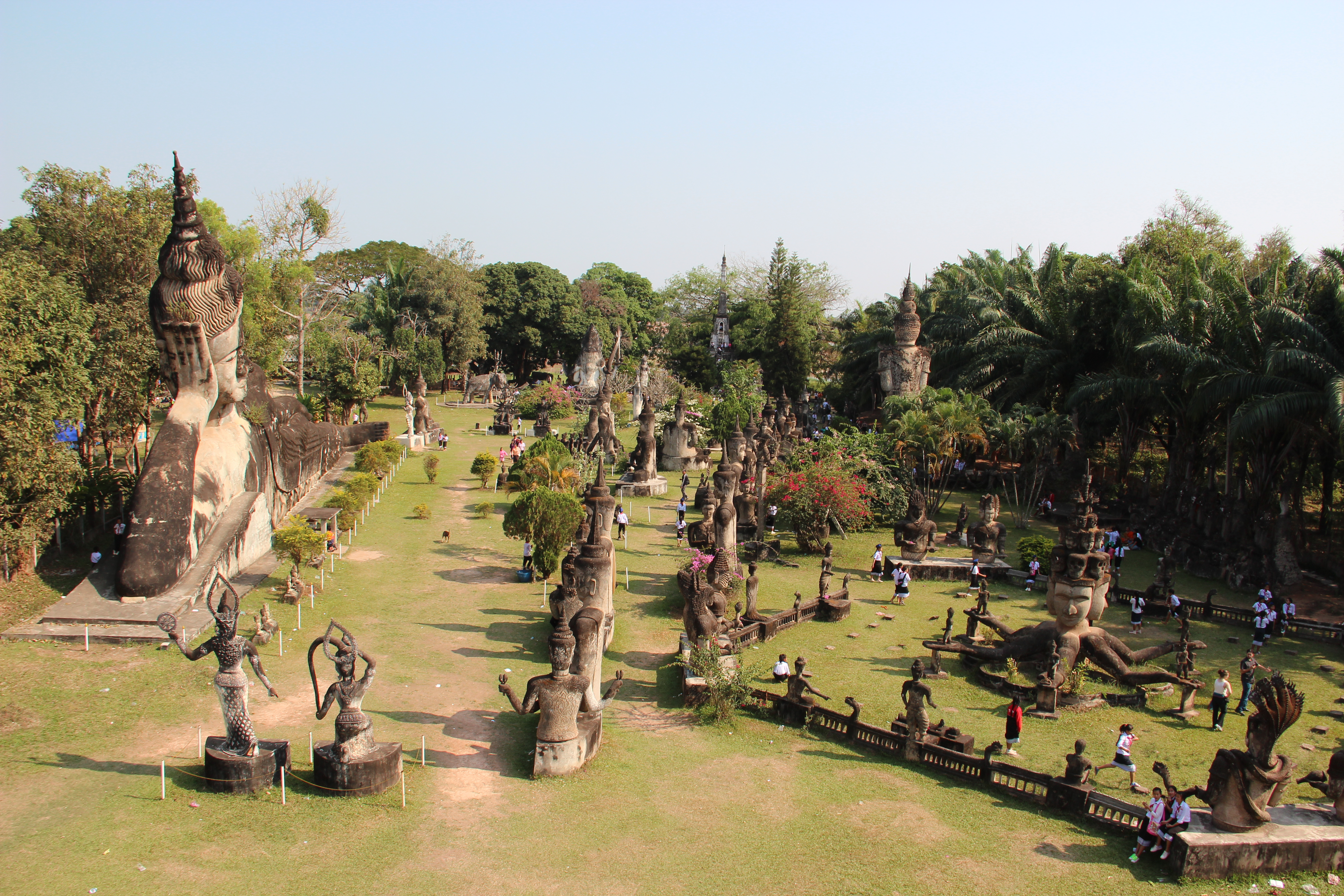 Buddha Park (or "Xieng Khuan"), near Vientiane, Laos.